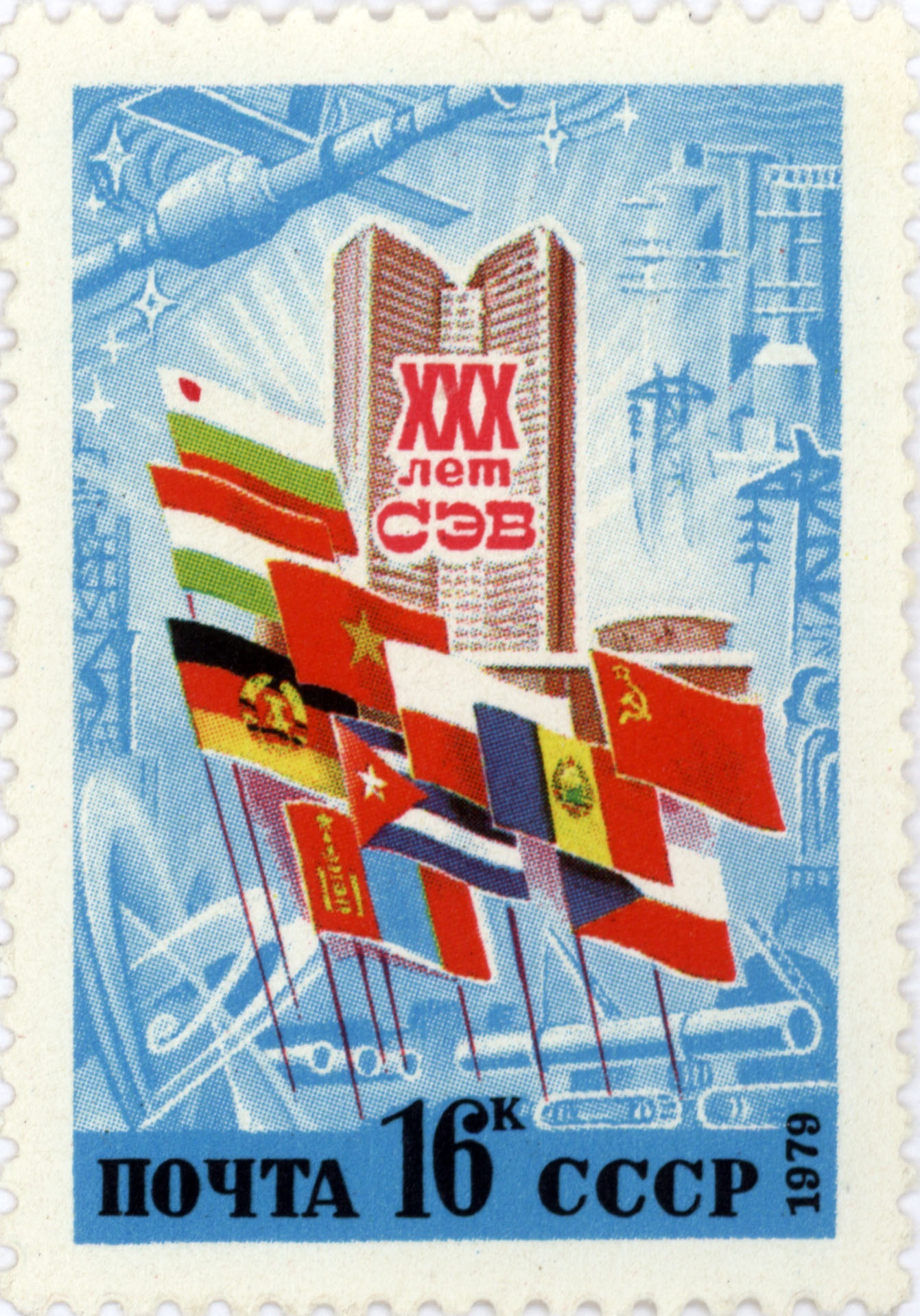 1979 USSR stamp. Comecon 30th anniversary. Comecon building in Moscow. Flags of comecon participants.